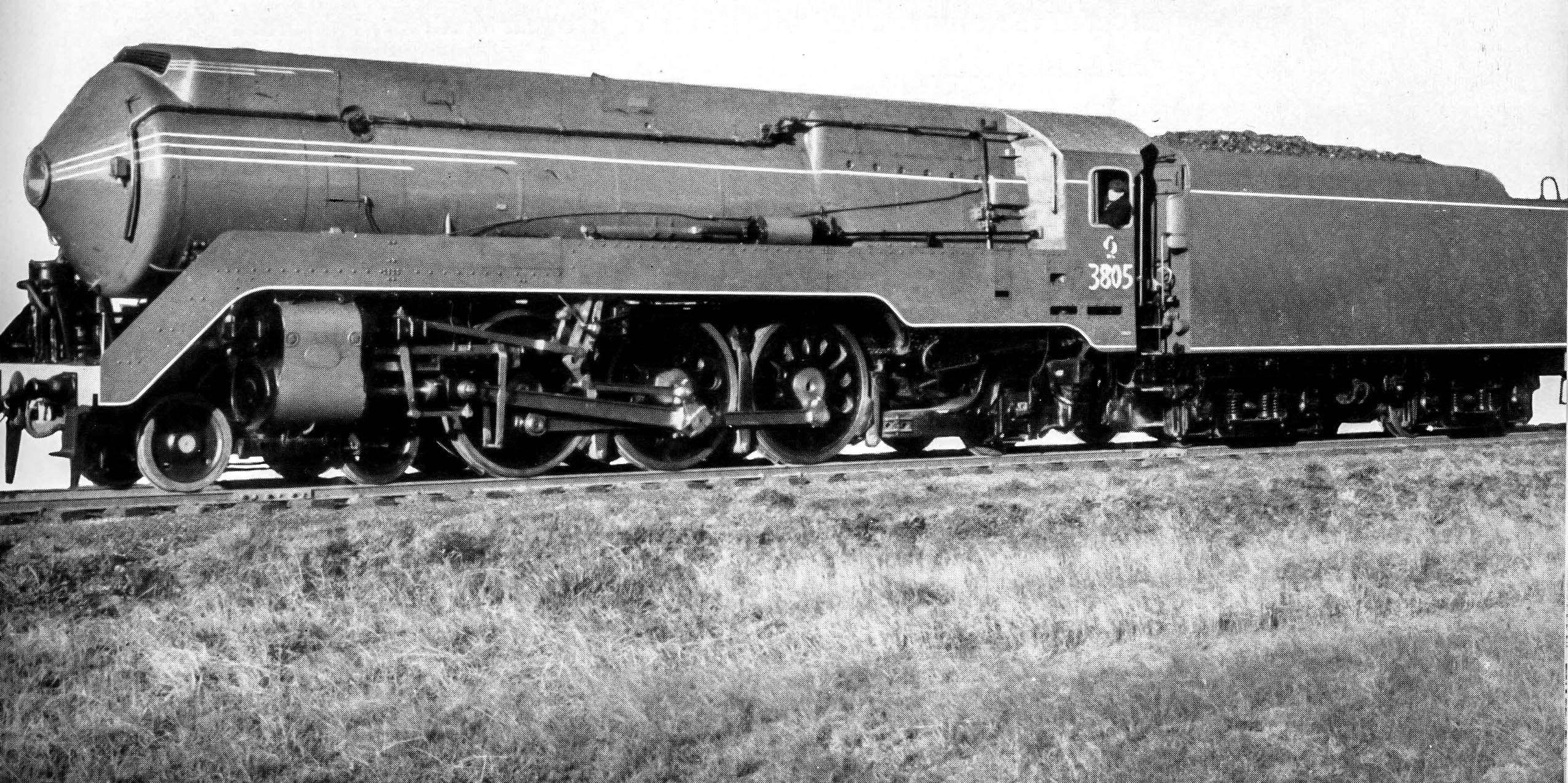 NSWGR Class C.38 Locomotive Streamlined